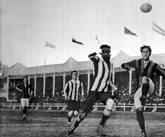 A Brazilian defender throwing the ball before the Argentine player Laguna reaches it, during the Argentina v. Brazil national teams match in Buenos Aires. Brazil wore a green and yellow striped jersey for that game.